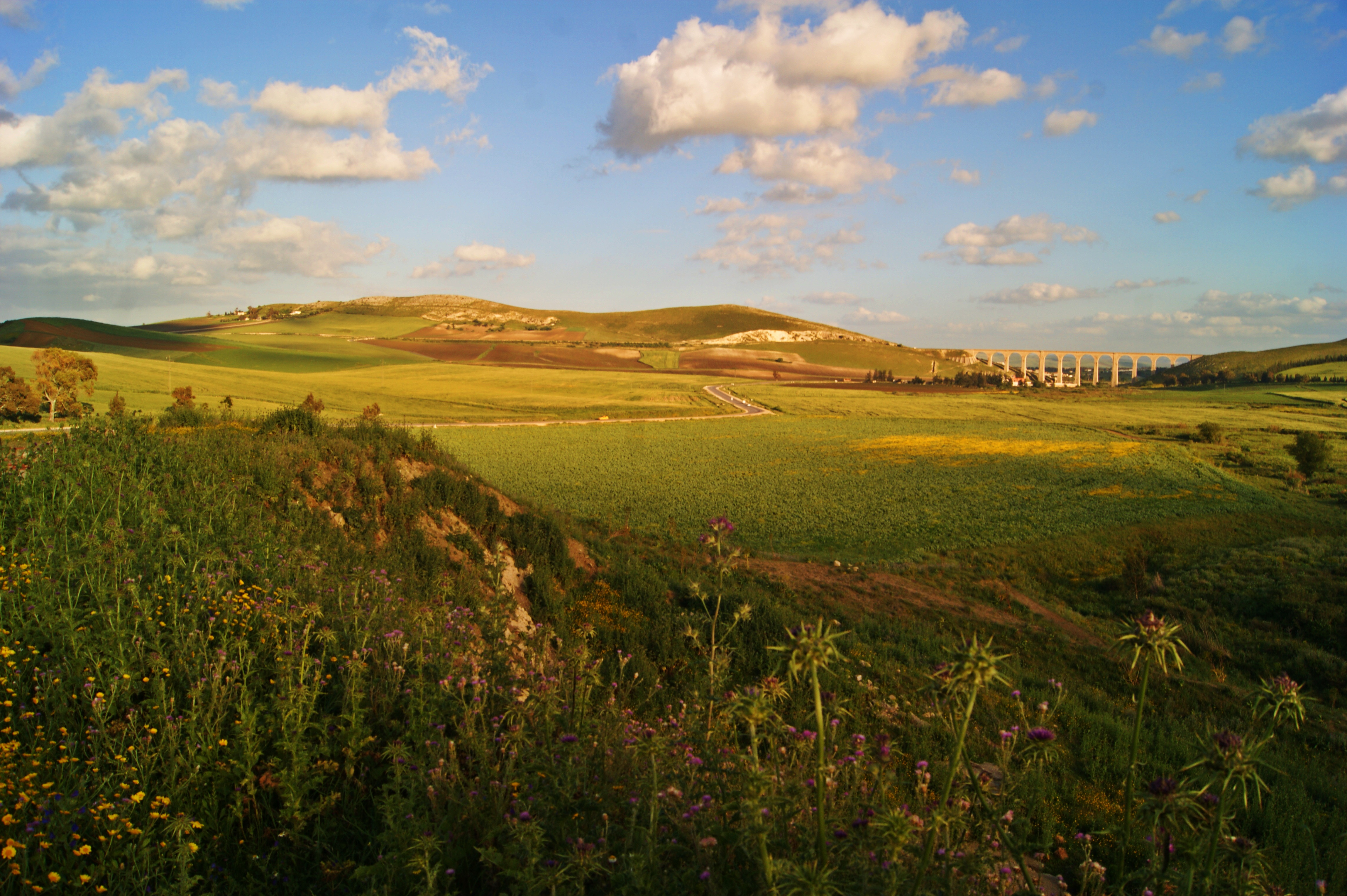 Pont de Béja